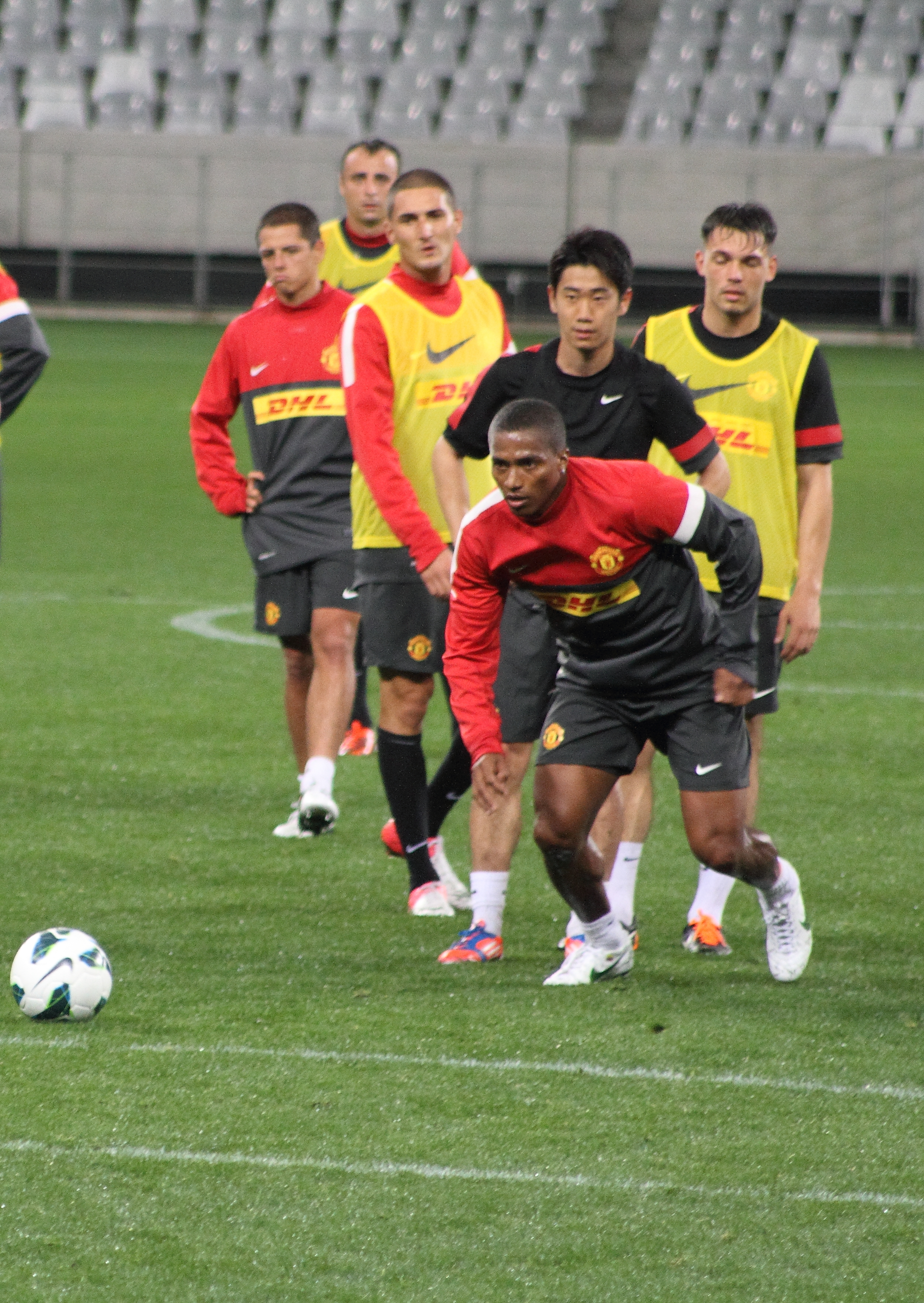 During Manchester United training session in South Africa.